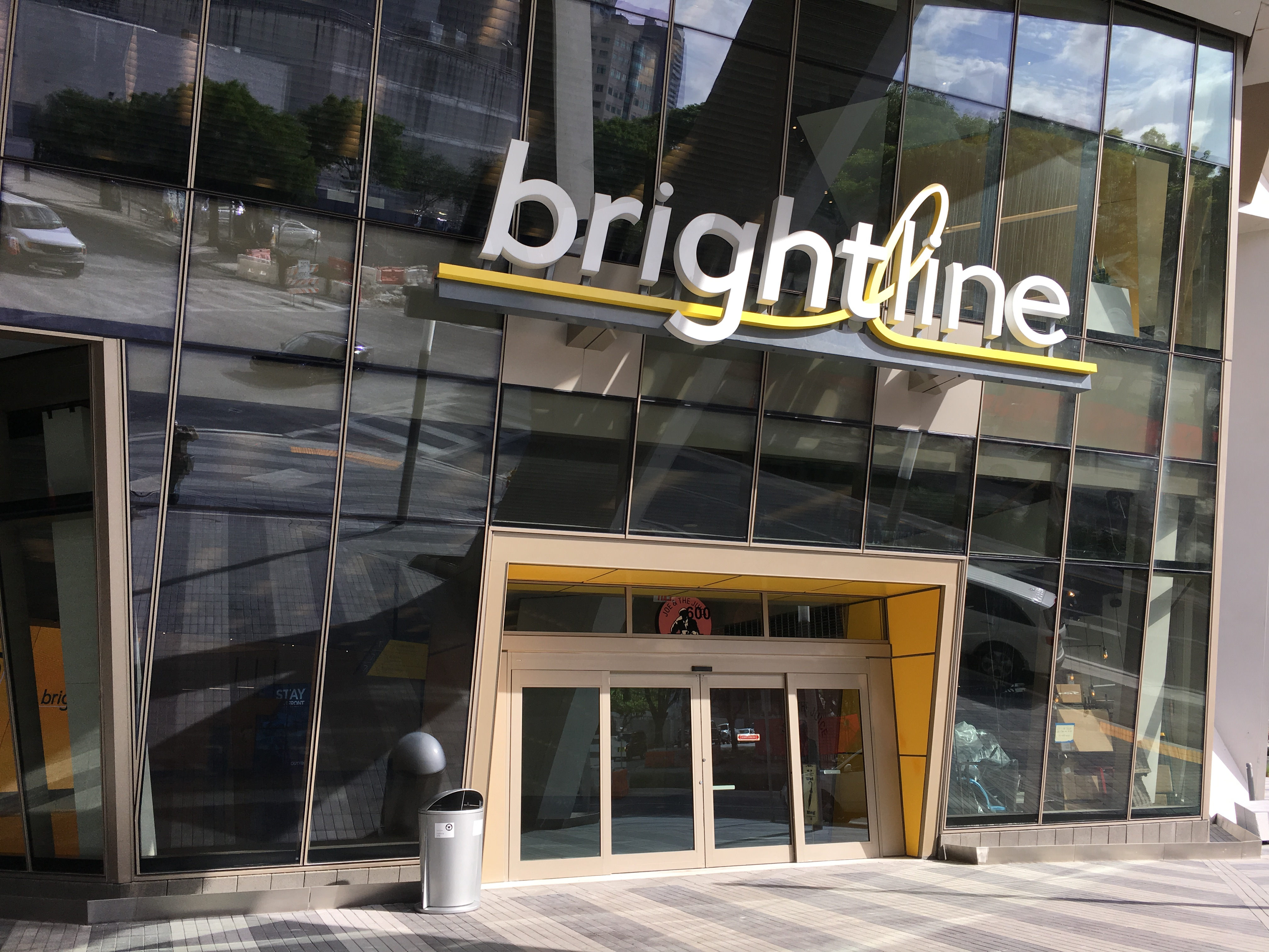 Brightline Station Downtown Miami